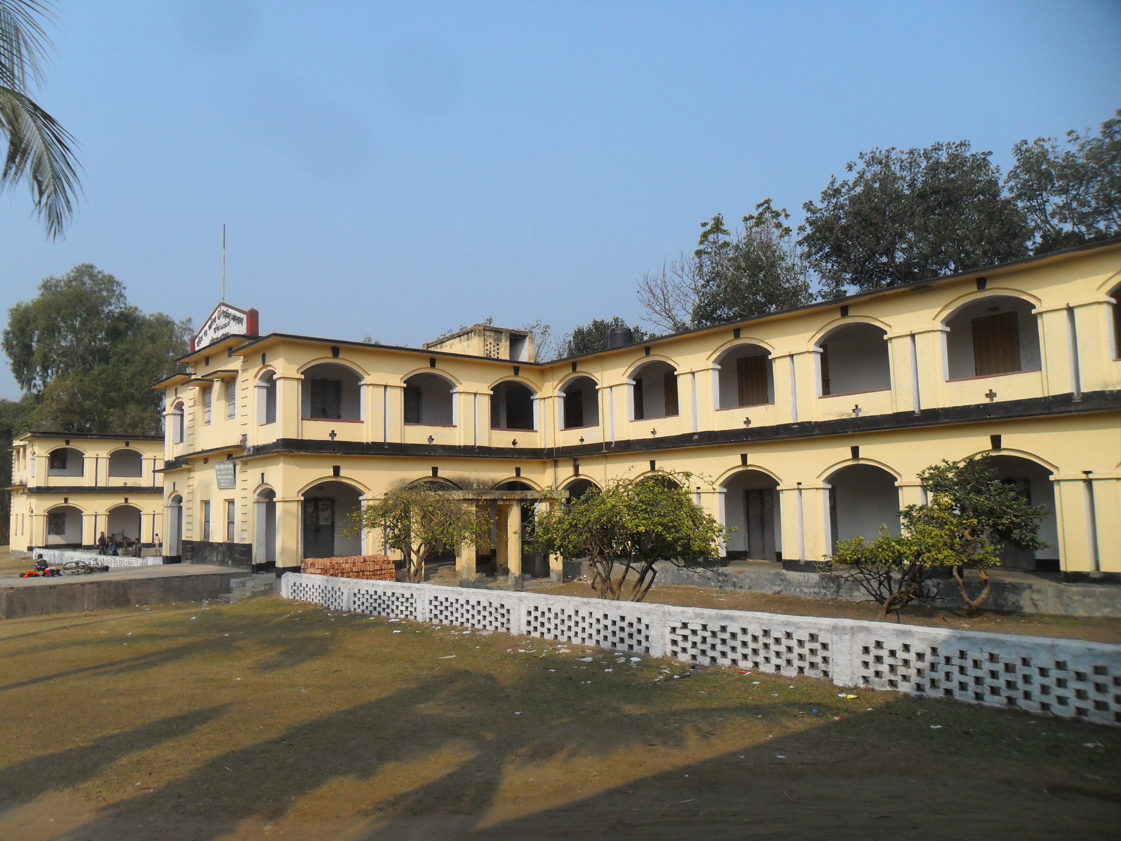 Mohimaganj Madrasa